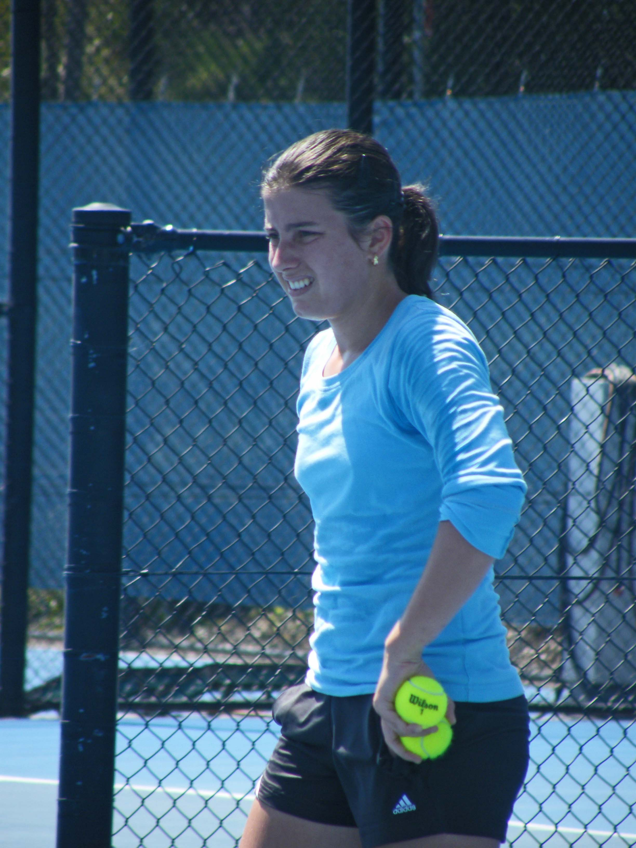 Anastasia Sevastova at the 2010 Sydney Medibank International.